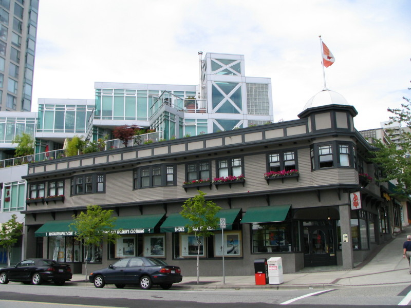 This image was created by me, Flying Penguin of Pacific Spirit Photography of Burnaby, British Columbia, Canada.